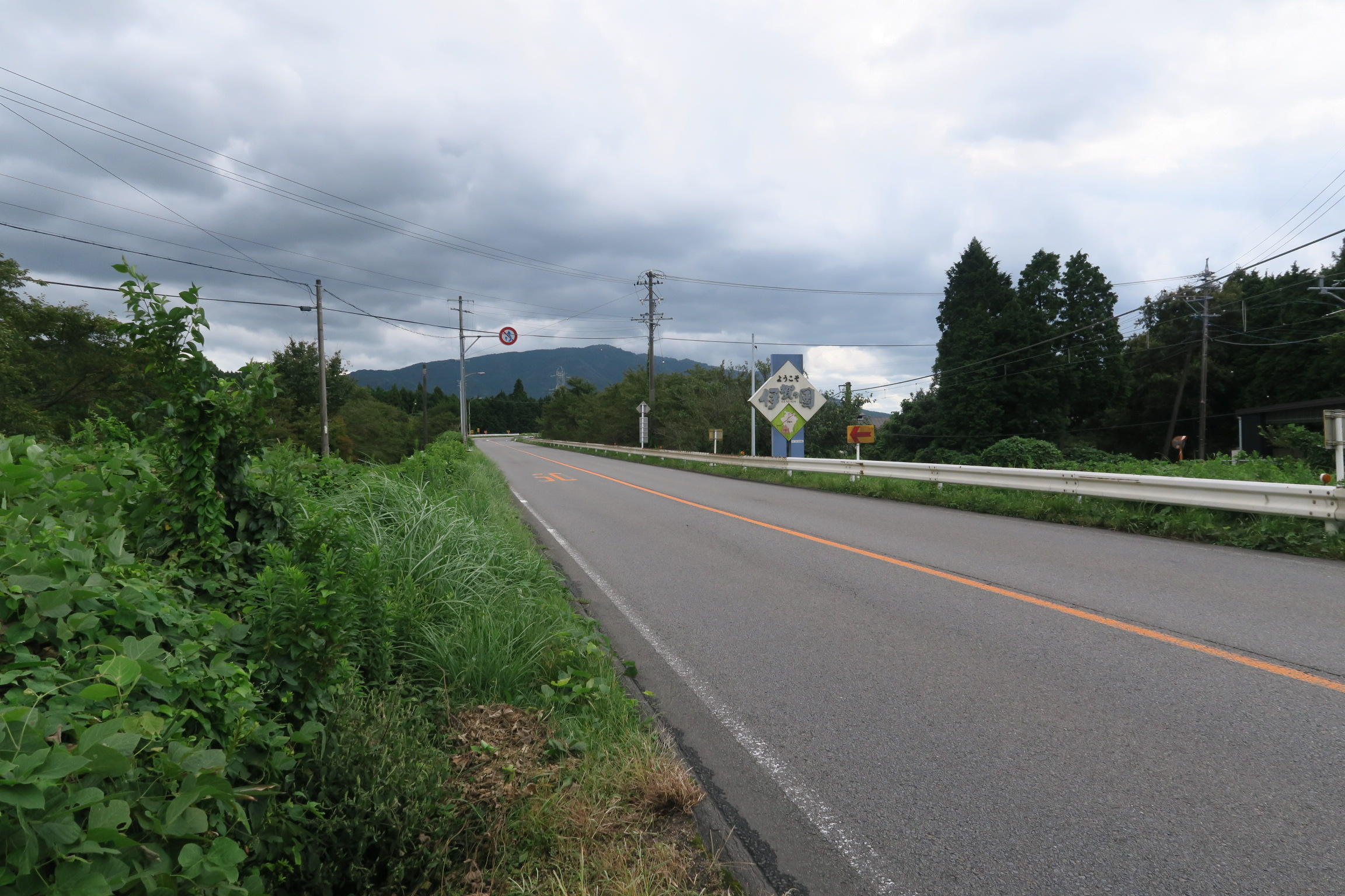 Kurafu Pass between Koka and Iga